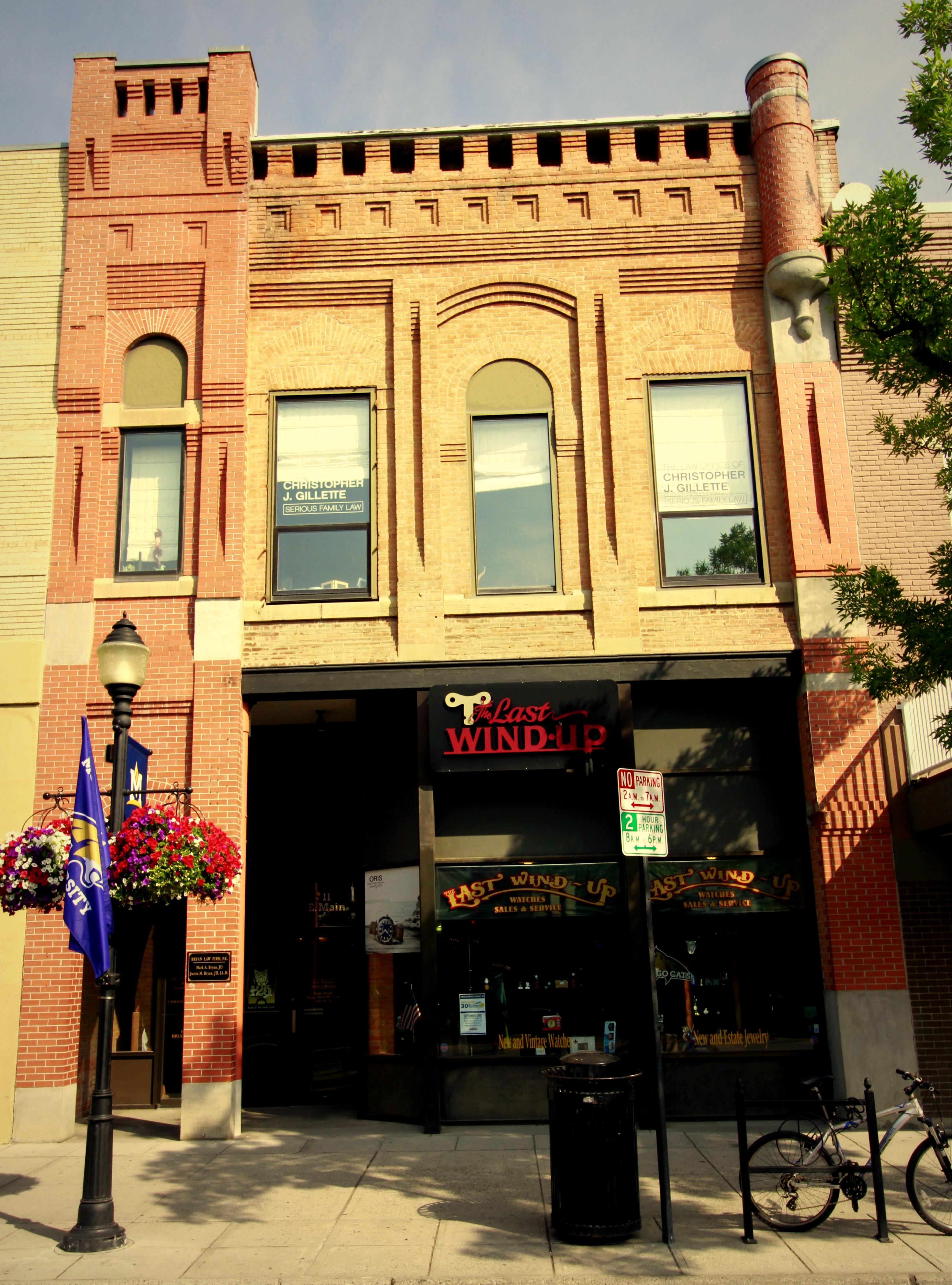 R.T. Barnett and Company Building